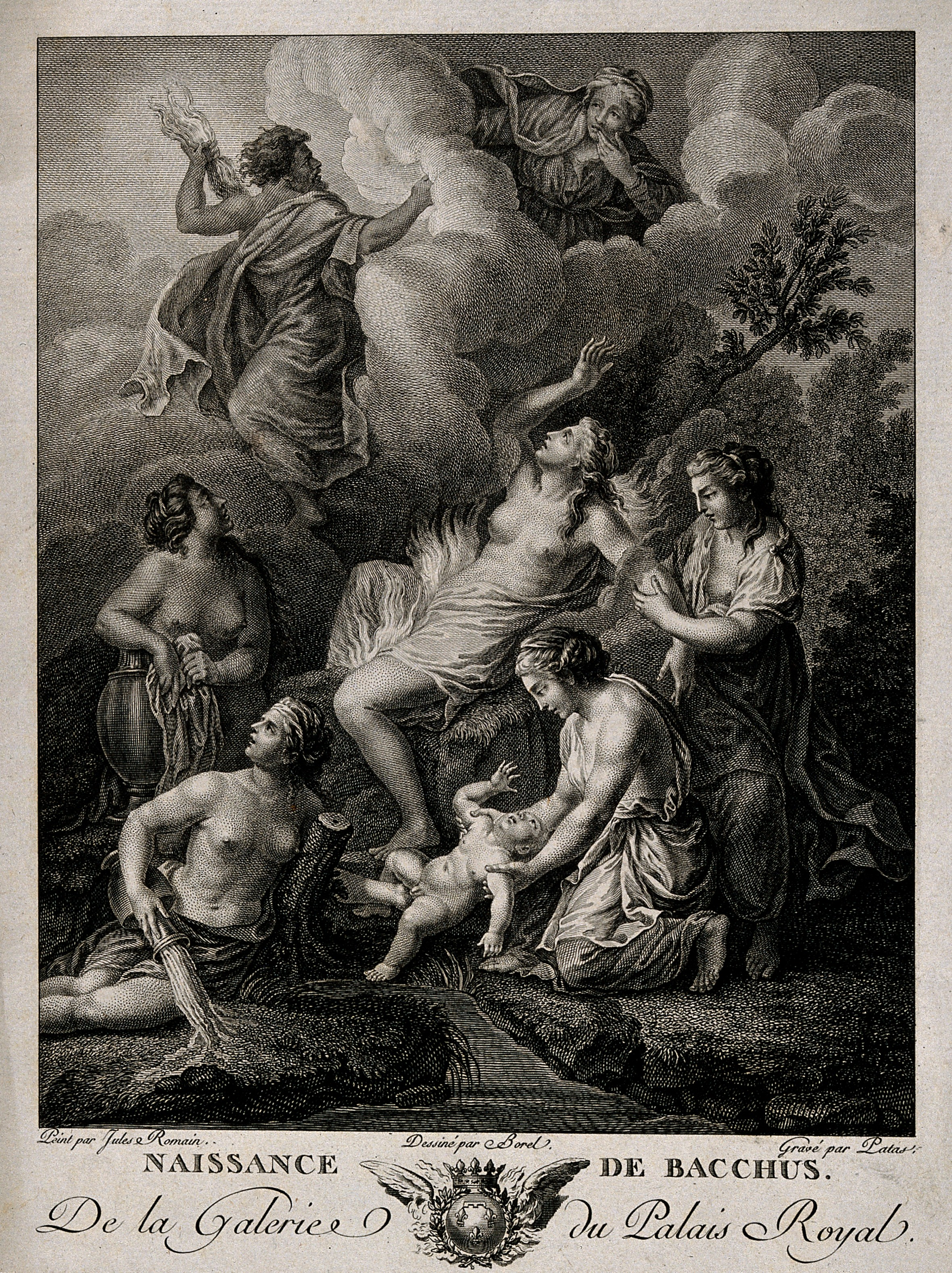 Bacchus being bathed by nymphs after being born from Jupiter's knee, his mother Semele is consumed by flames. Engraving by C. Patas after A. Borel after G. Romano. Iconographic Collections Keywords: Bacchus; Charles Emmanuel Patas; Antoine Borel; Giulio Pippi